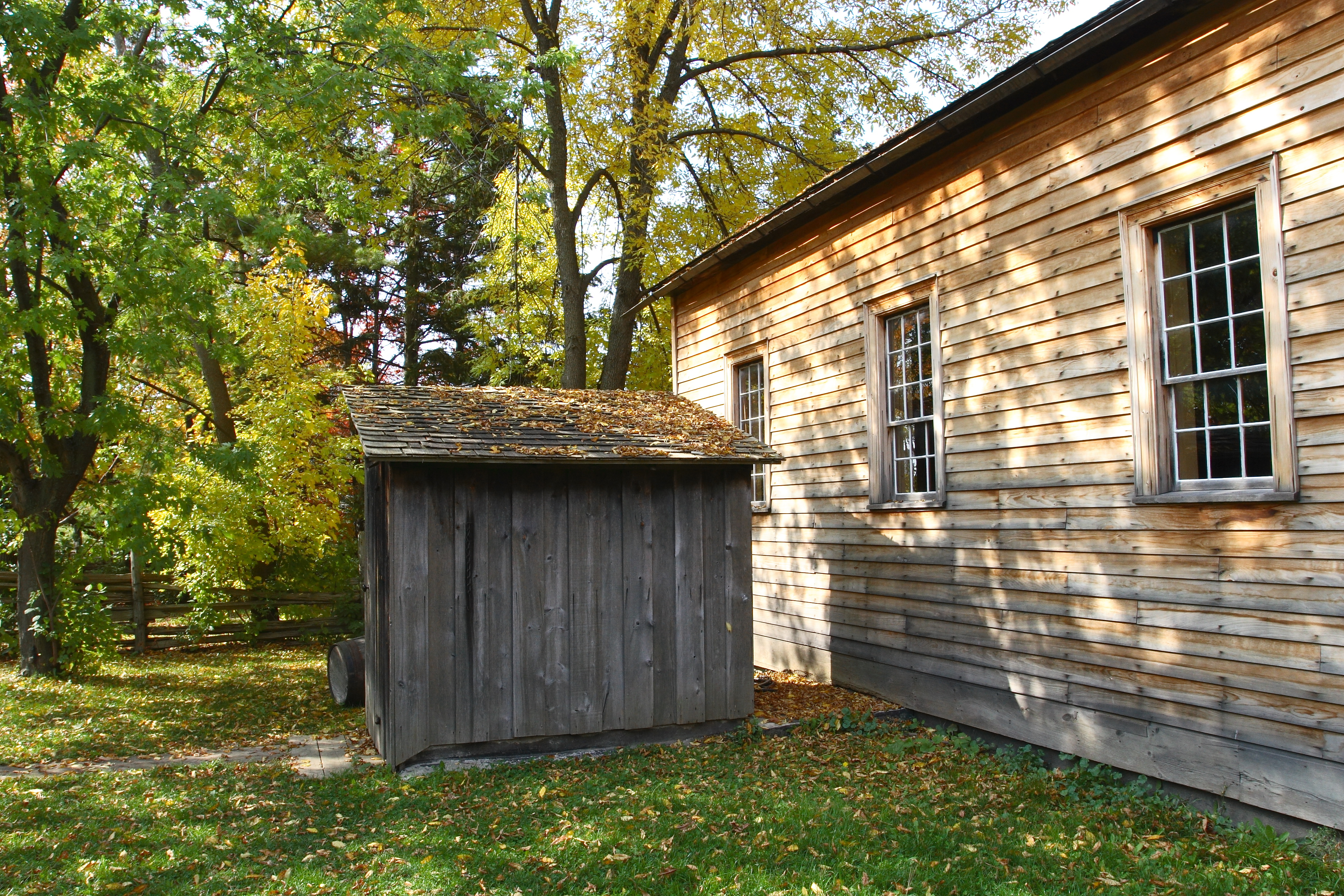 Edgeley Mennonite Meeting House, Black Creek Pioneer Village